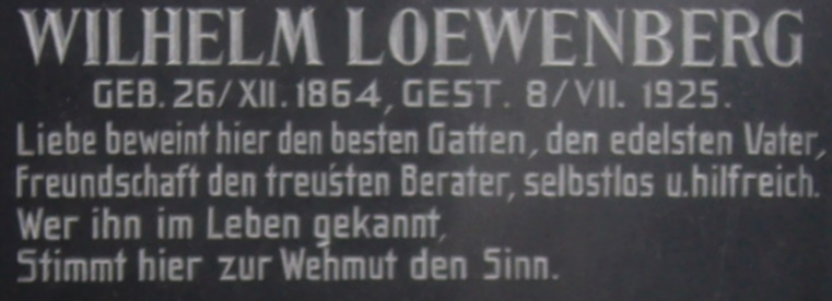 Jewish cemetery in Bielsko-Biała - German inscription on Loewenberg fmily grave.